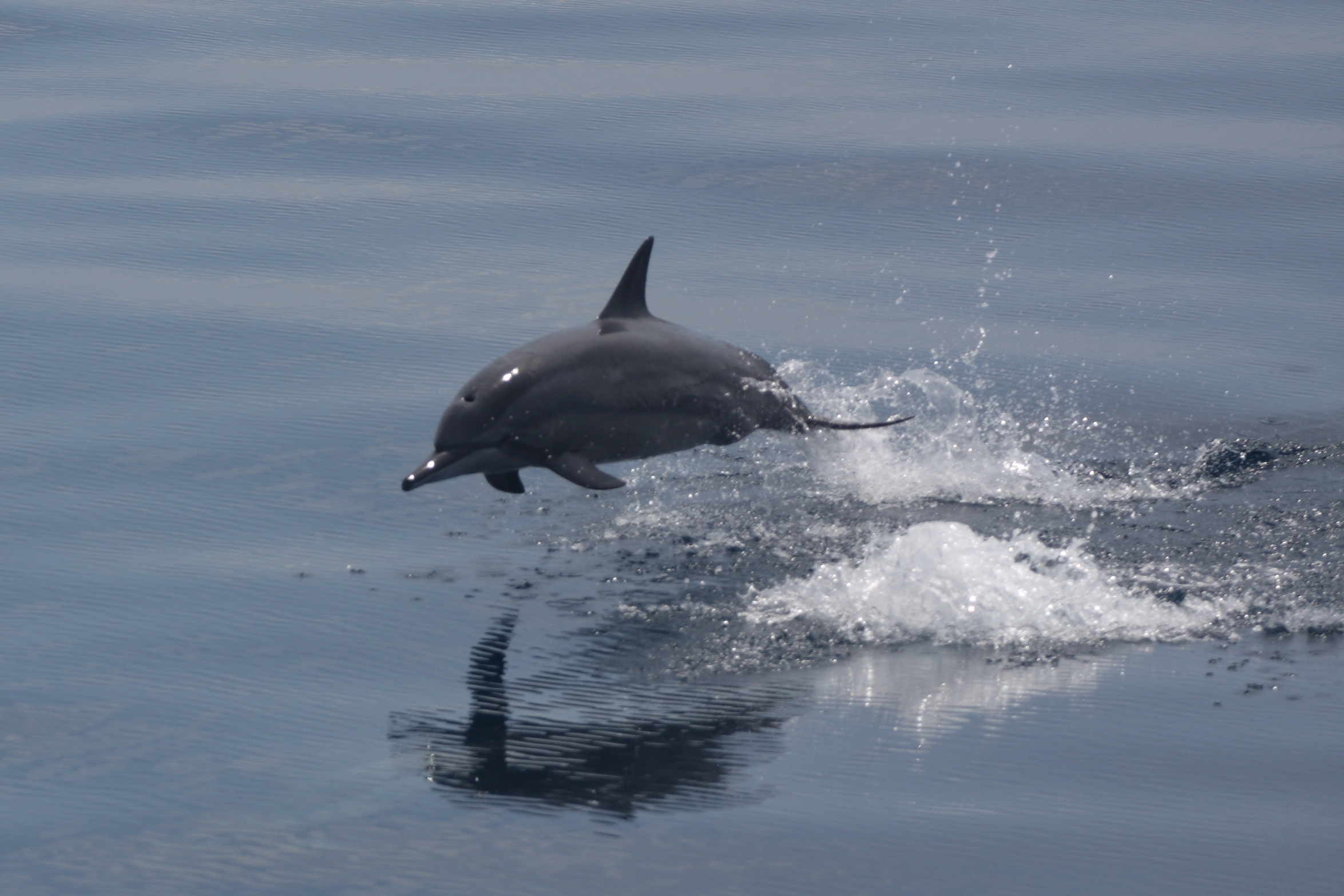 Spinner dolphin(Stenella longirostris)